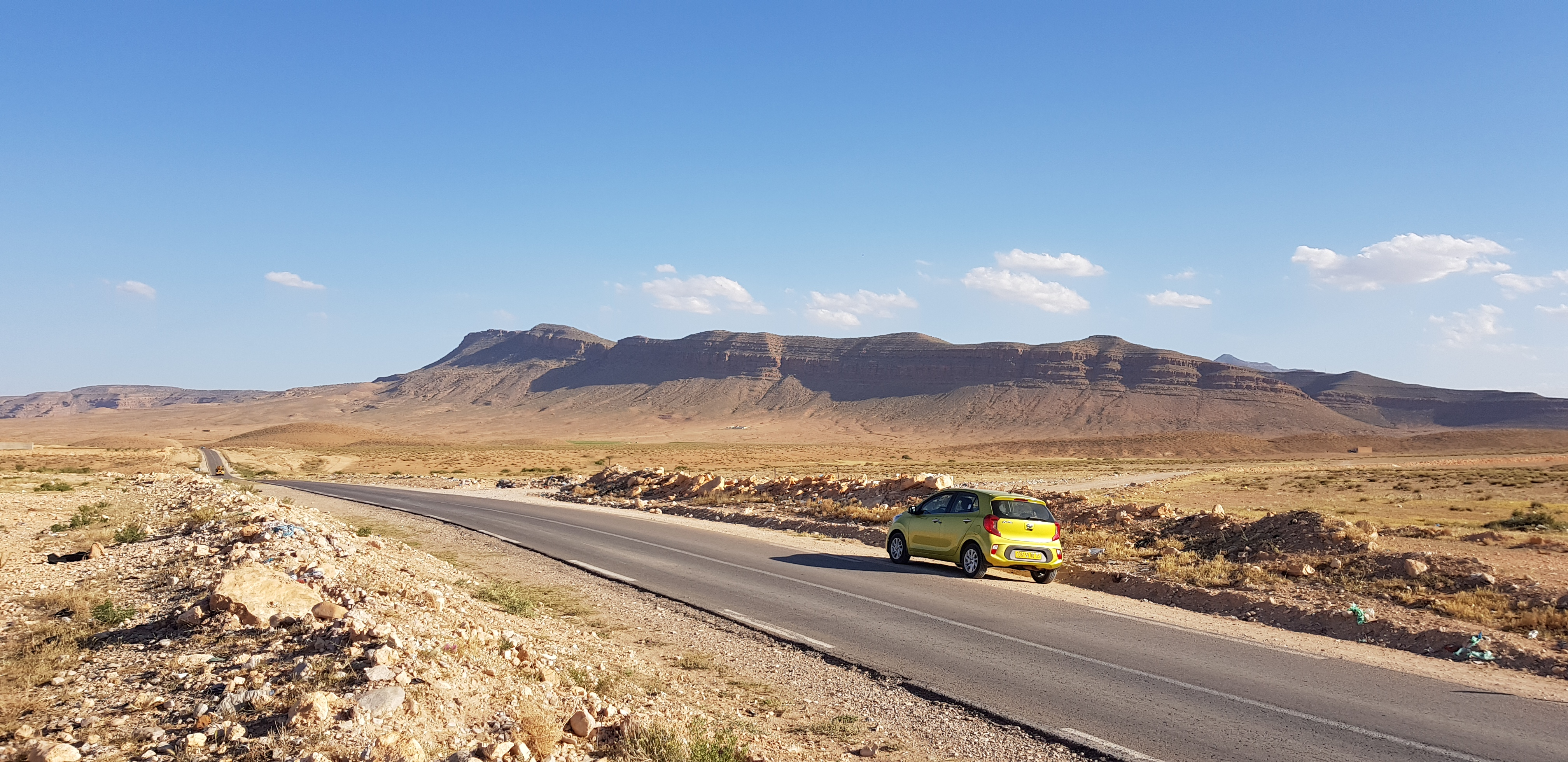 The door of the Algerian Desert, Boussaada on a sweet April day This is an image with the theme "Africa on the Move or Transport" from: Algeria